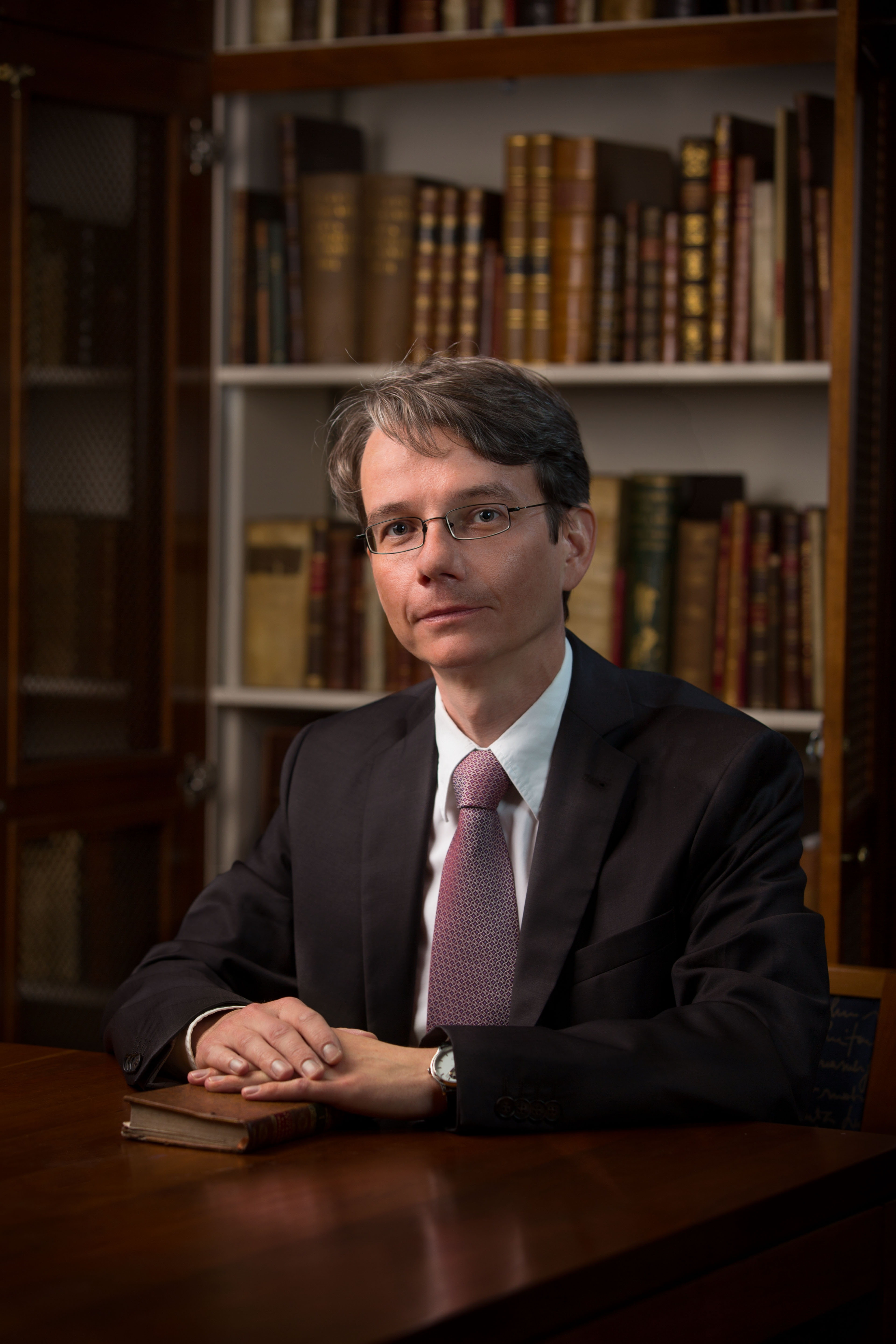 Photograph of Carsten Reinhardt, historian of science and president and CEO of the Chemical Heritage Foundation, 9 August 2013, at the Chemical Heritage Foundation, Philadelphia, PA, USA.